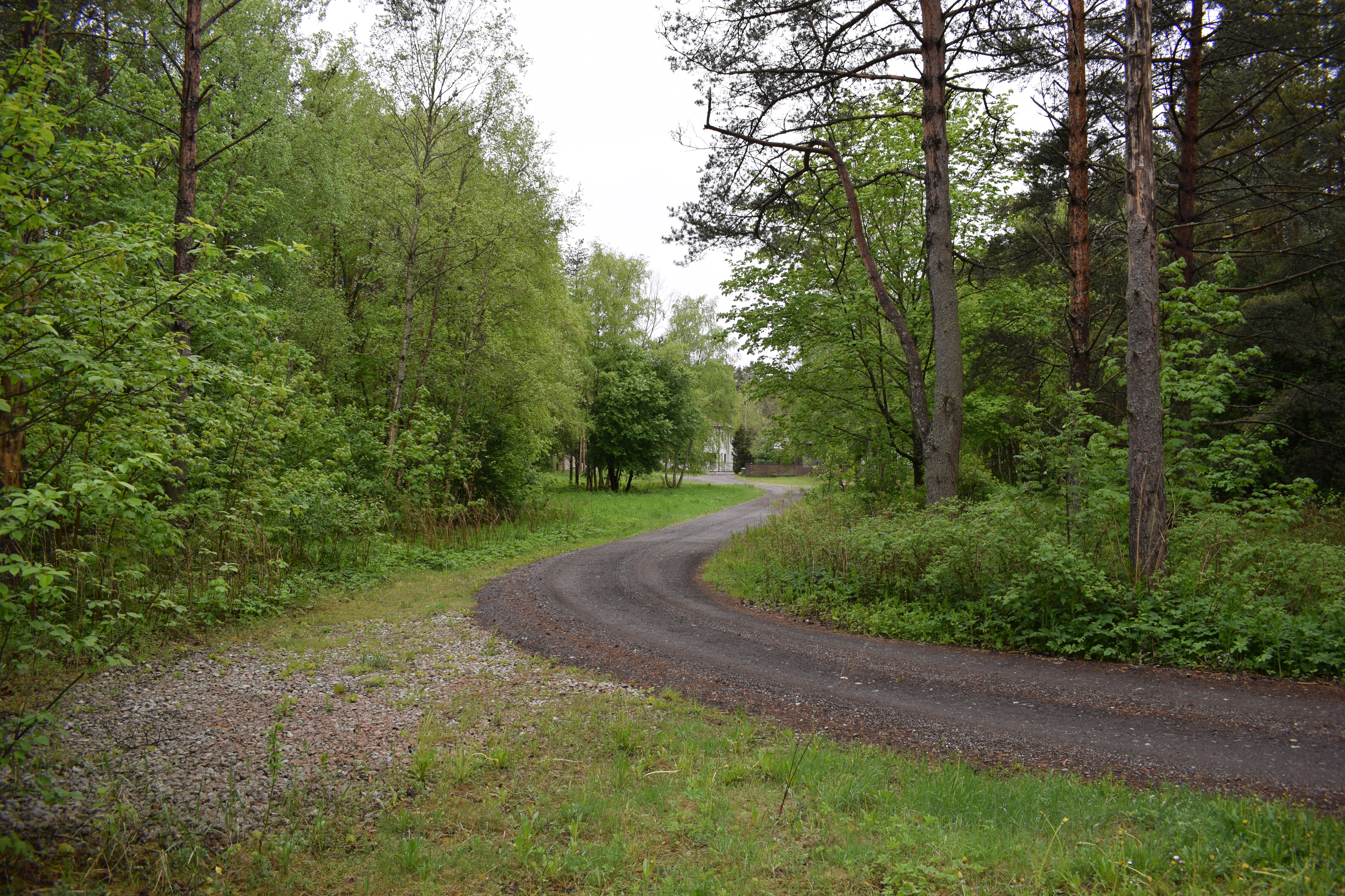 Harksaba street